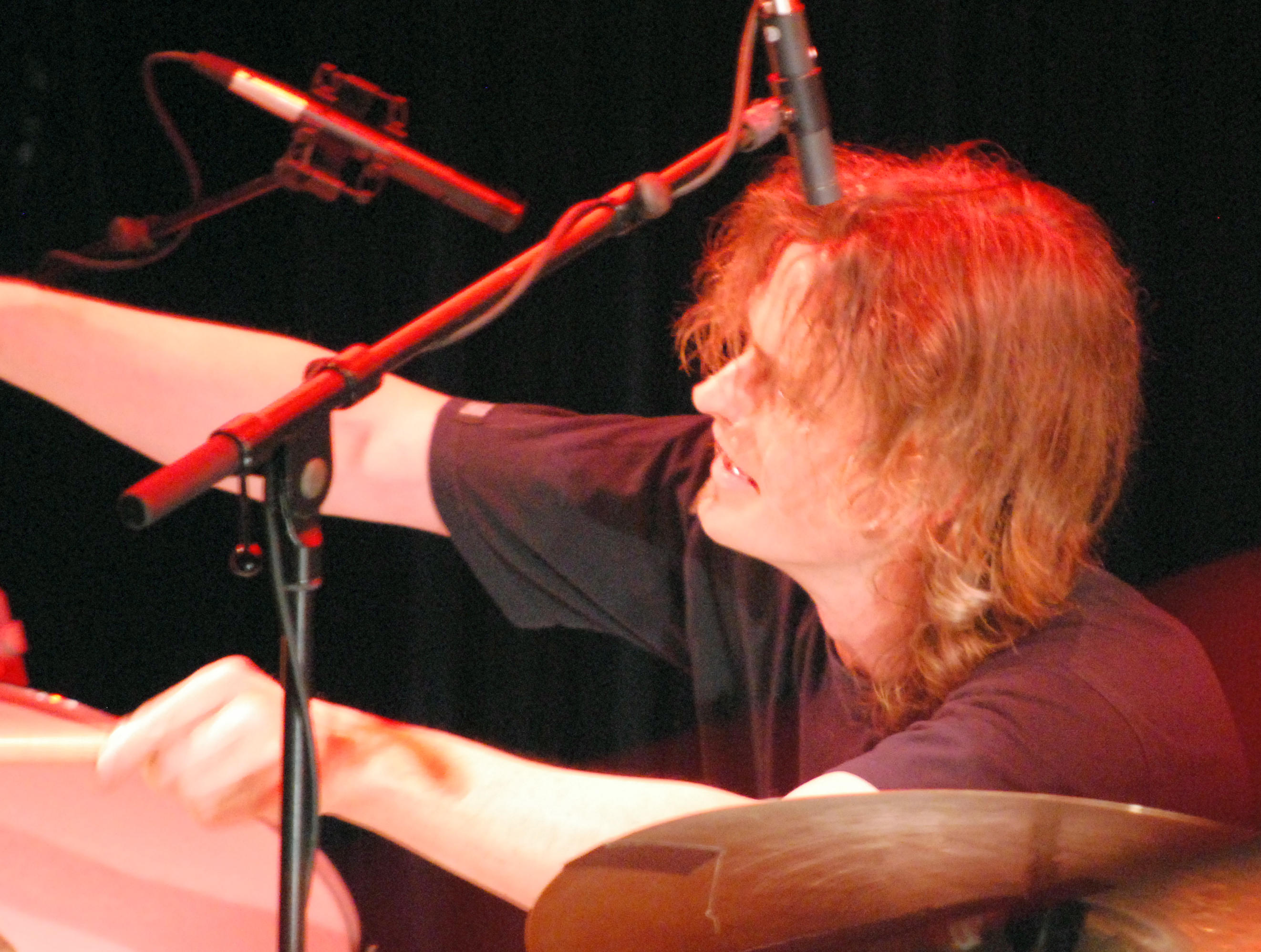 Audun Kleive at a concert with Nils Petter Molvær, Treibhaus Innsbruck 2009